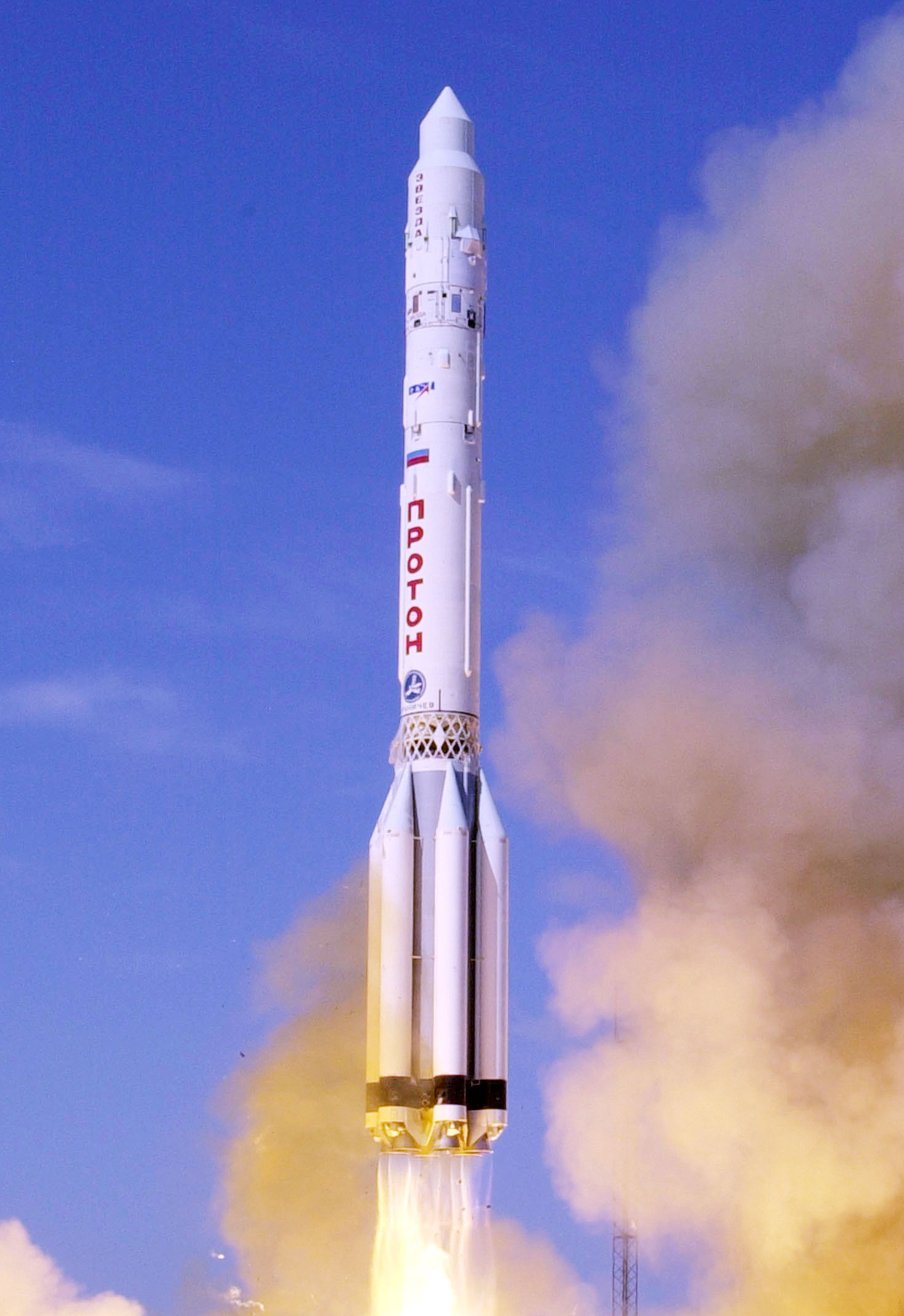 The launch of the Zvezda service module of the International Space Station on a Russian Proton-K rocket.